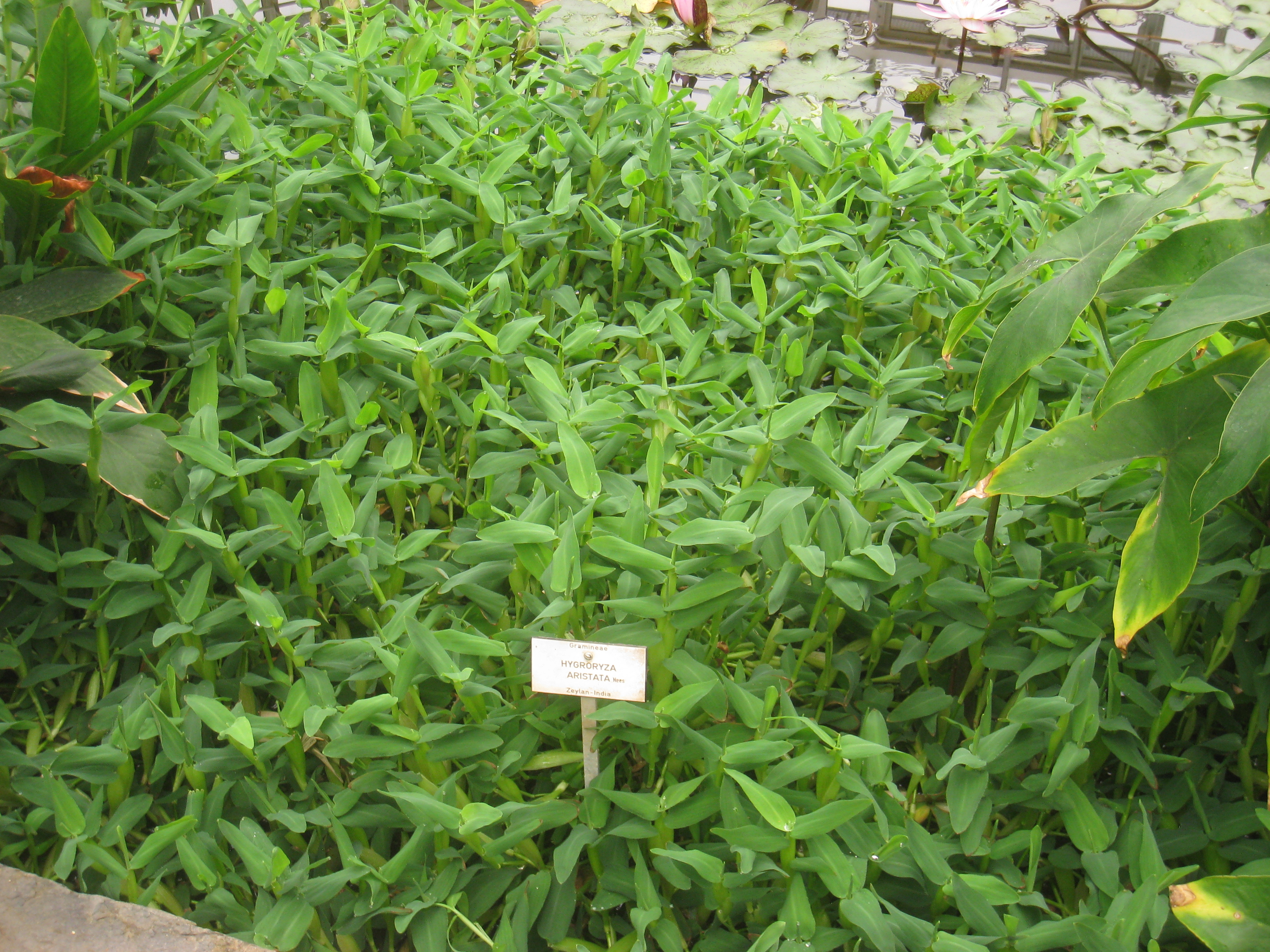 Hygroryza aristata specimen in the National Botanic Garden of Belgium, Meise, just north of Brussels, Belgium.